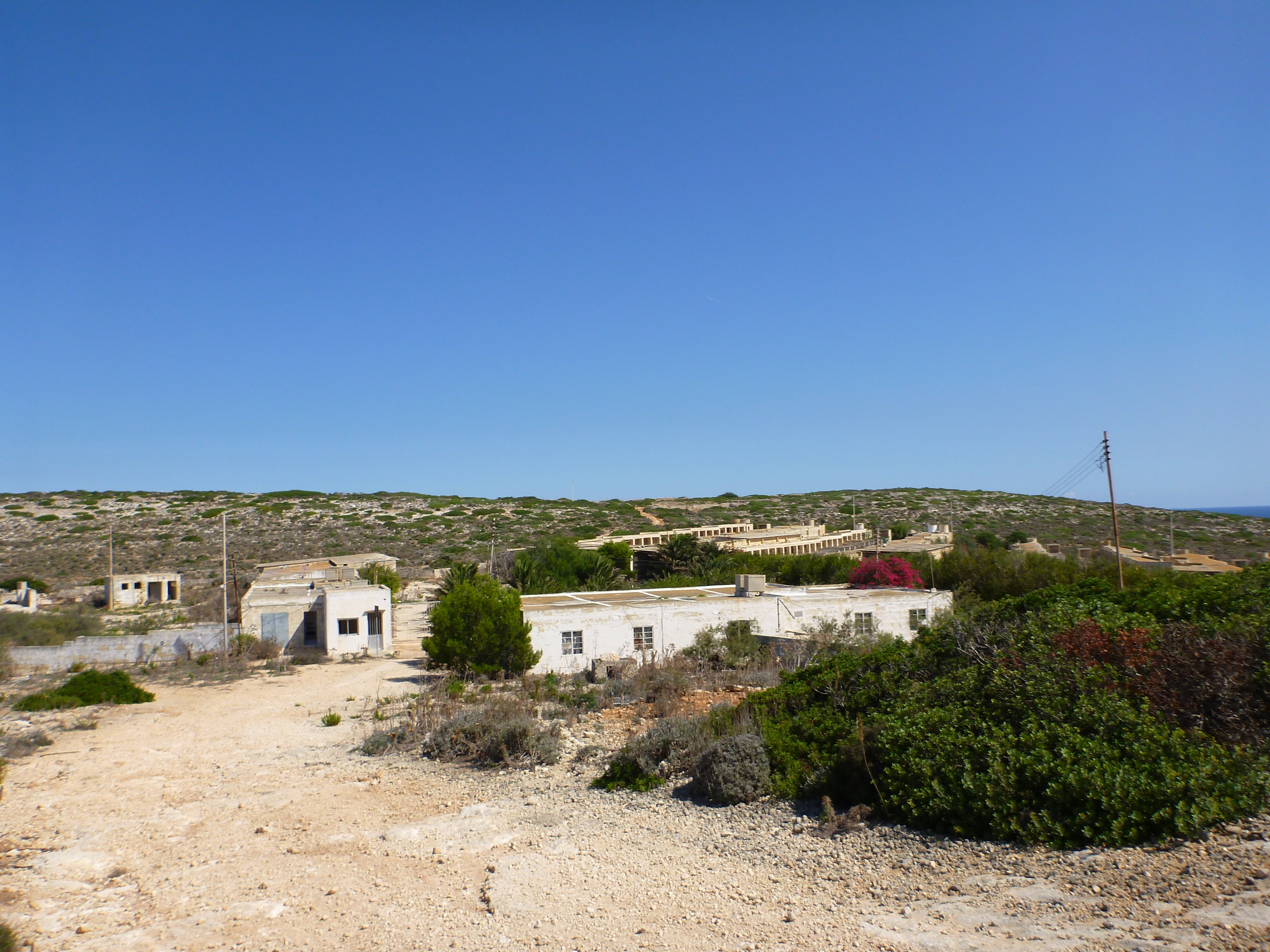 Former pig farm on island Comino